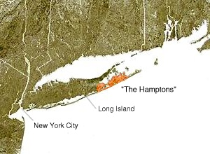 The Hamptons © 2004 Matthew Trump